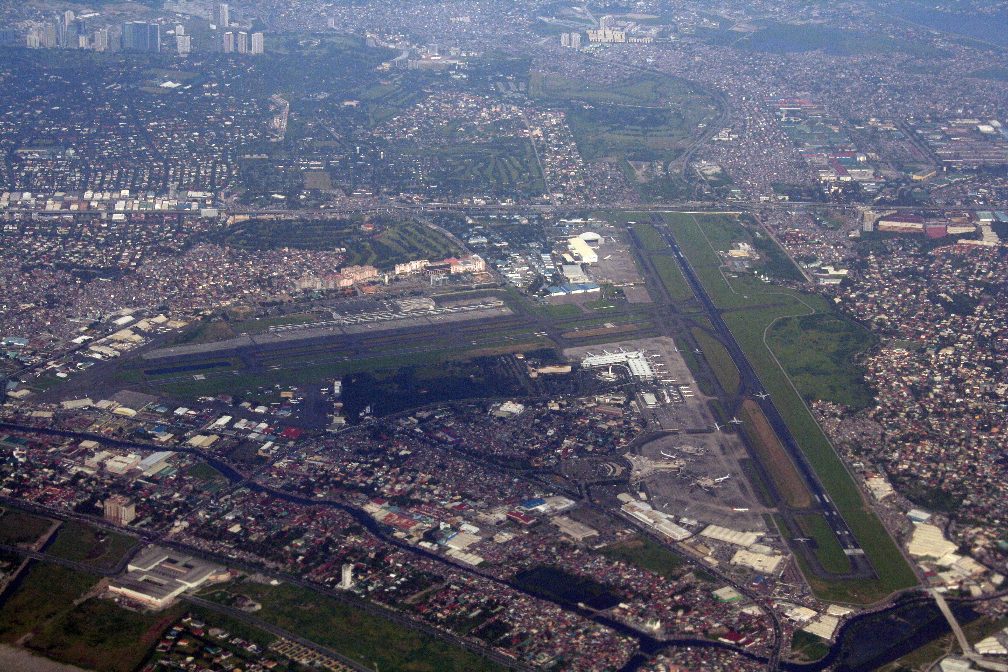 Aerial view of the Ninoy Aquino International Airport in Metro Manila, the Philippines.